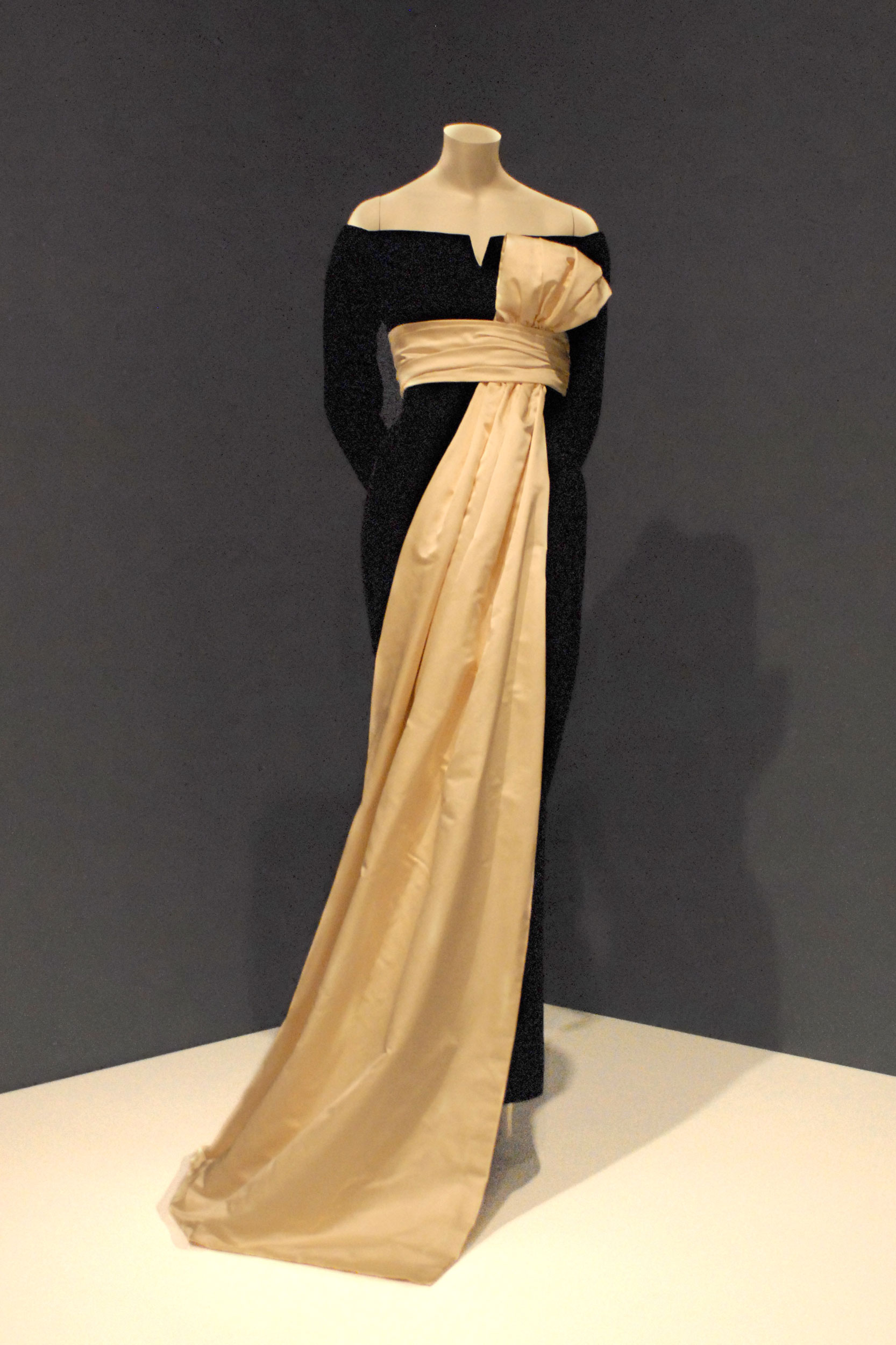 Christian Dior Evening Dress at the Indianapolis Museum of Art. This dress was worn by the supermodel Dovima in the famous Richard Avedon photograph "Dovima with Elephants".